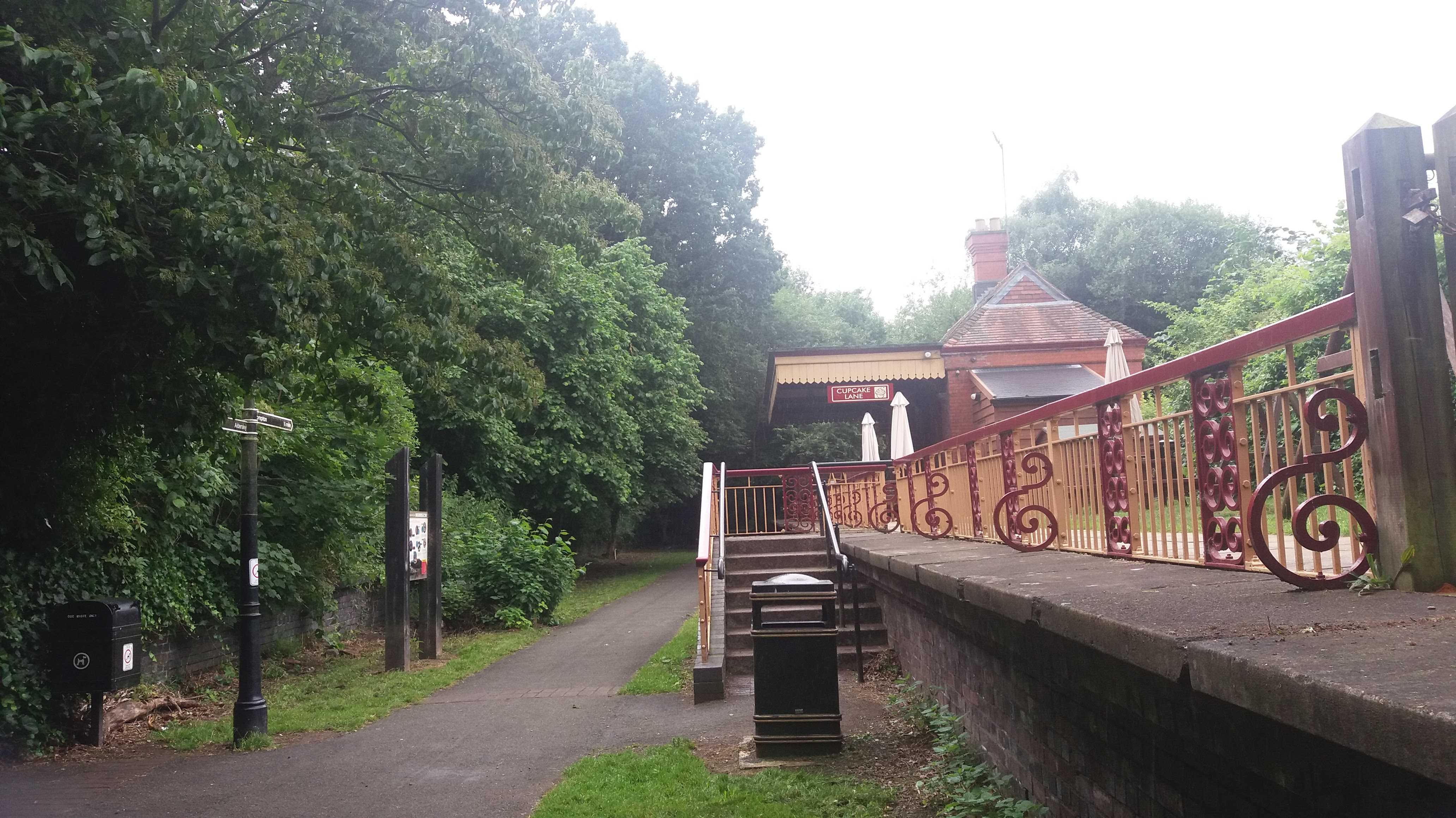 My own.